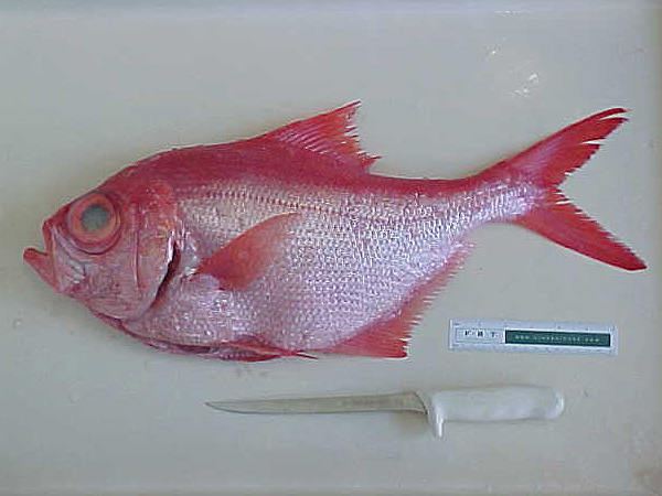 The red bream (Beryx decadactylus) supports fisheries in parts of the North Atlantic and may have commercial fishery potential on the Blake Plateau.